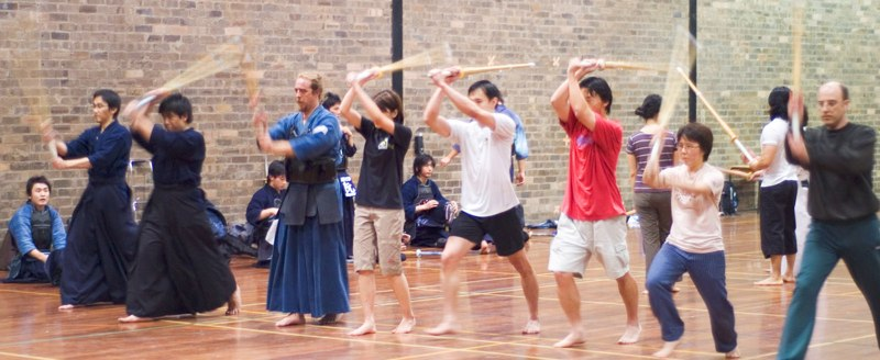 Photo Taken by: Maowei Cheng, University of Sydney Kendo Club. This photo was taken by the author for public use and distribution of USYD Kendo Club training activities.